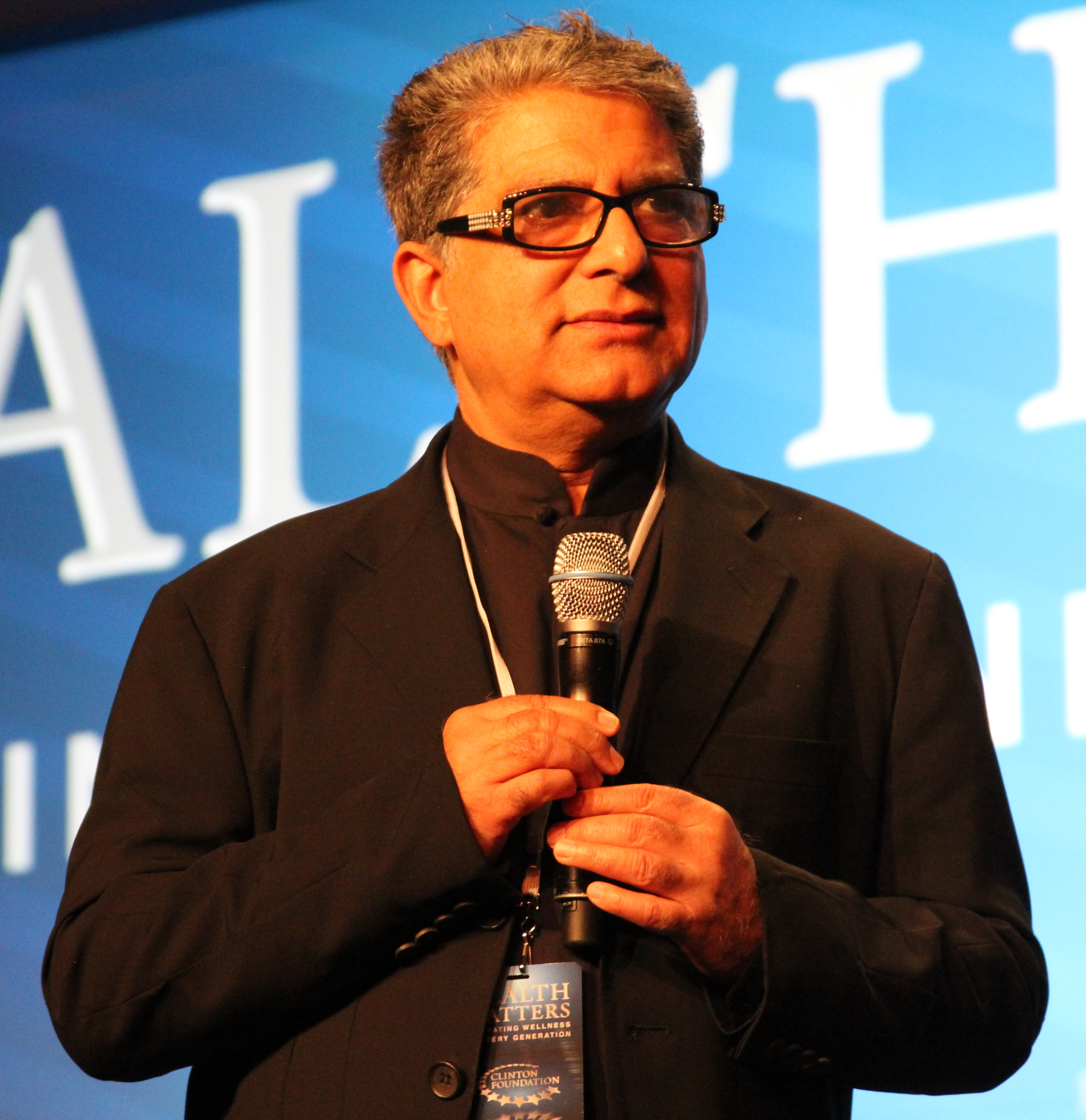 Deepak Chopra at the Clinton "Health Matters" Conference in La Quinta, California, 14 January 2013